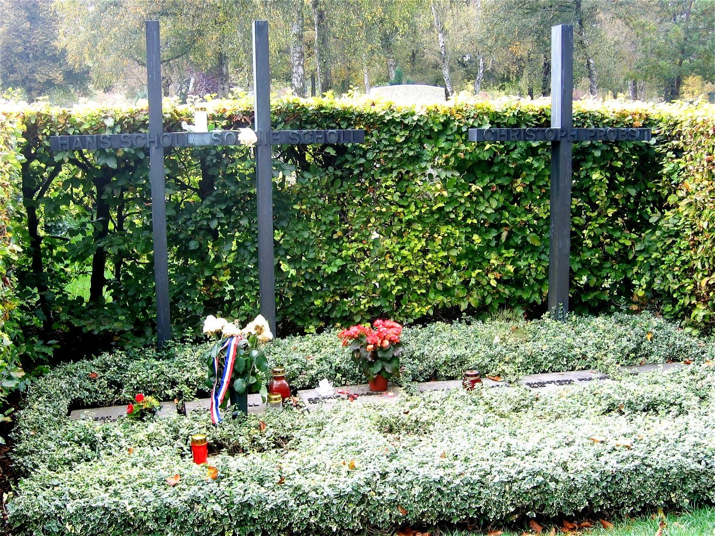 Graves of Hans Scholl, Sophie Scholl and Christoph Probst (Weiße Rose) in the Munich cemetery Friedhof am Perlacher Forst